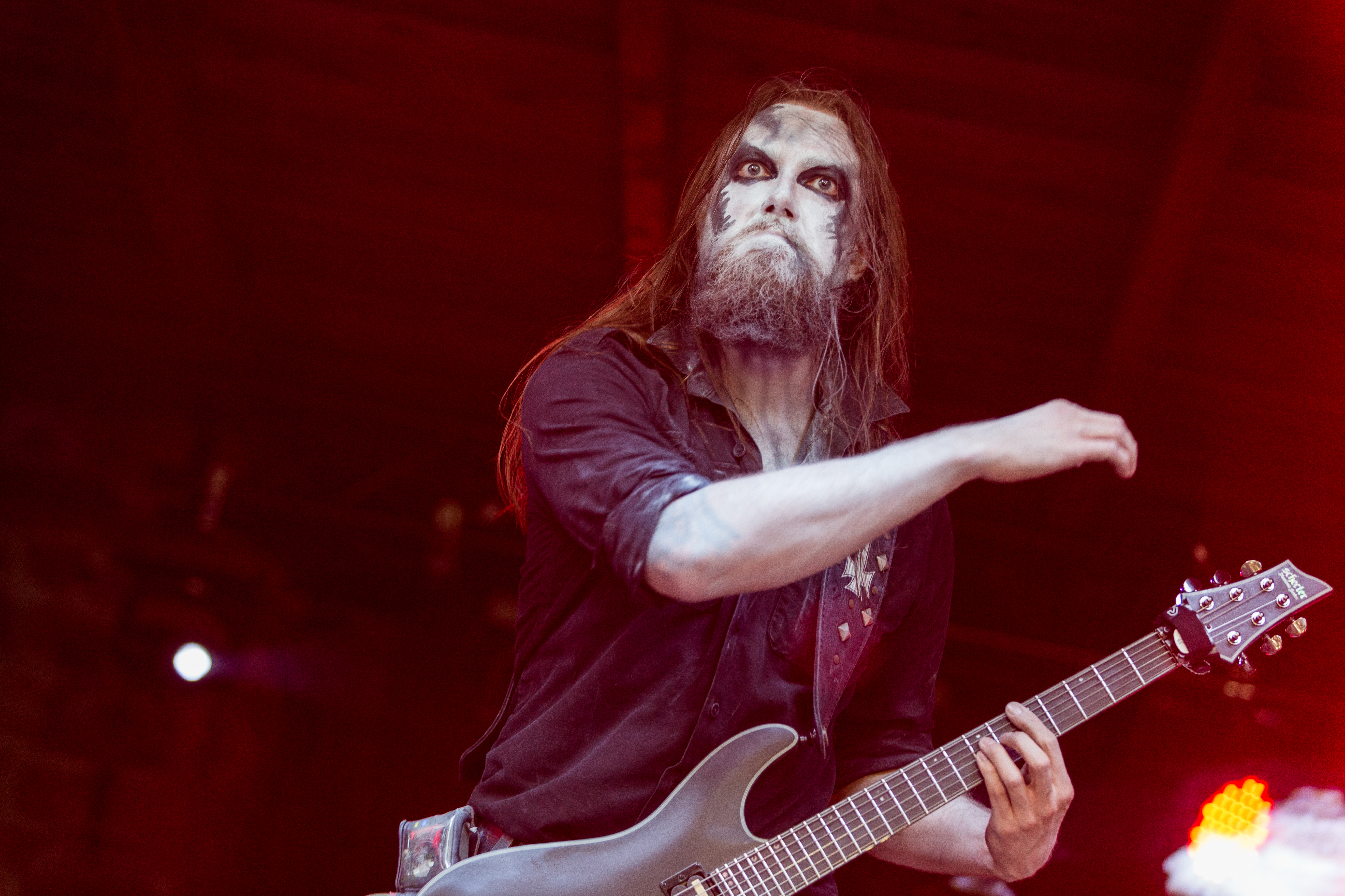 The Polish death metal band Hate at the Dark Troll Open Air 2017 in Bornstedt/Germany.